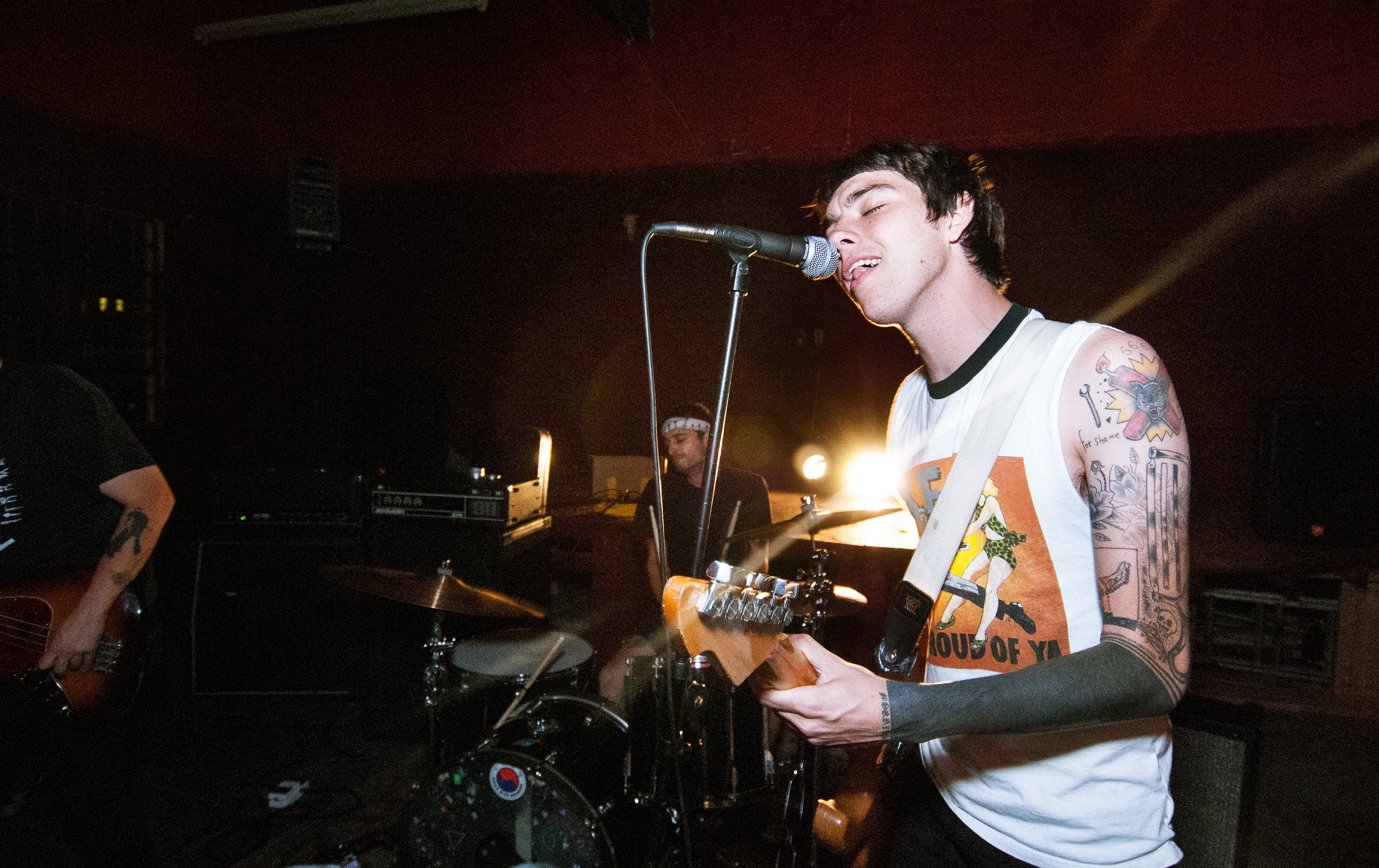 Photo by Saul Torres